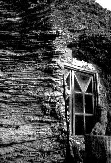 Nissim Cachlon residence, "Hermit House". Black and white, medium format.